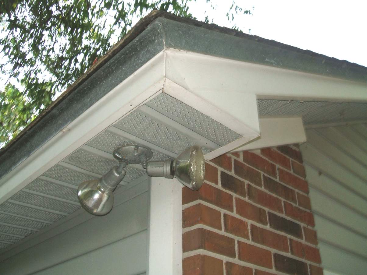 Photo of soffit with perforated vinyl sections for air flow into attic space.